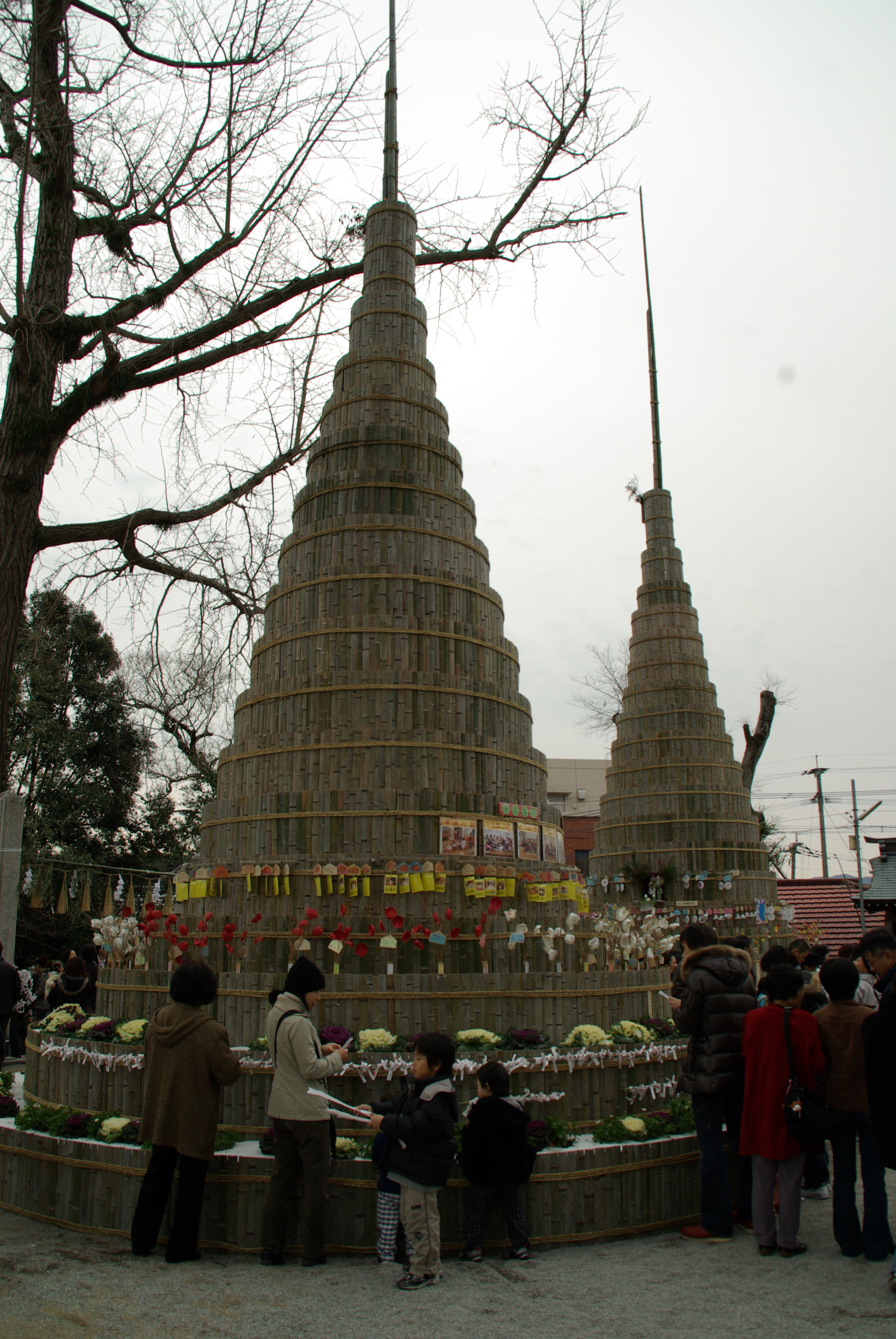 Huge Kadomatsu